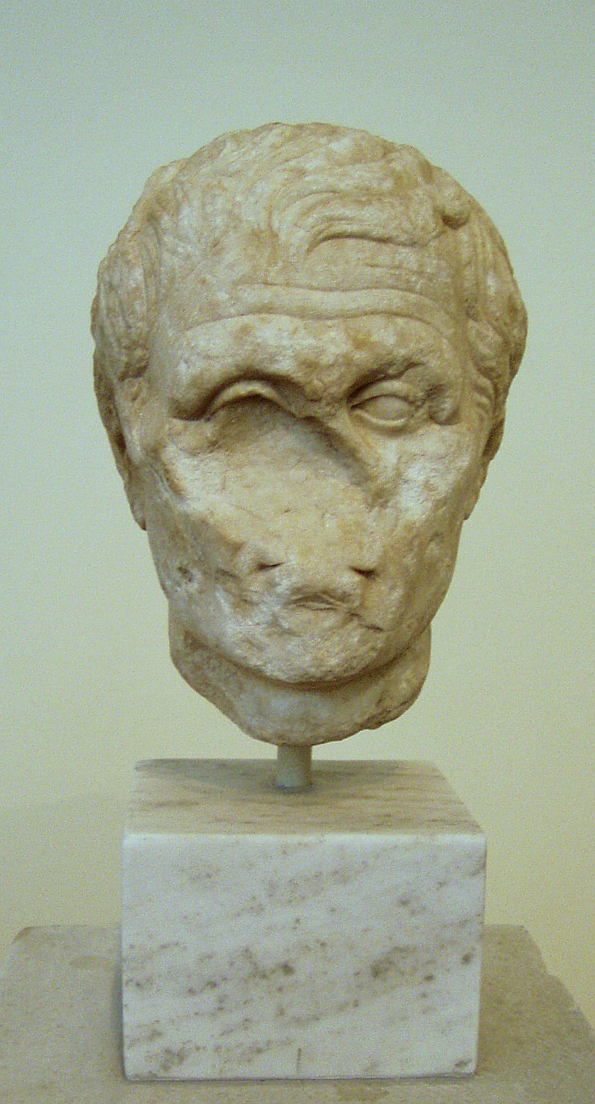 Portrait head of the poet Menander at the NAMA, Nr 3292.